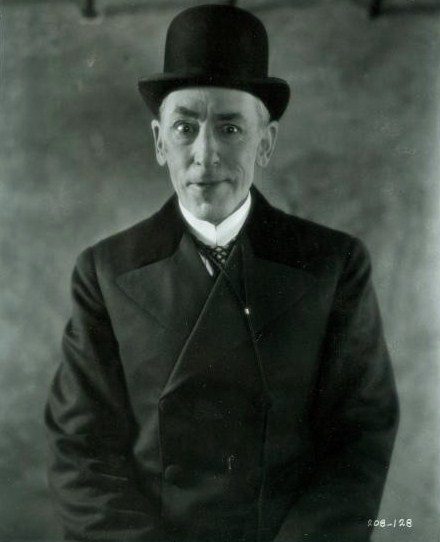 Tully Marshall in The Merry Widow (1925) - publicity still (cropped : see source)